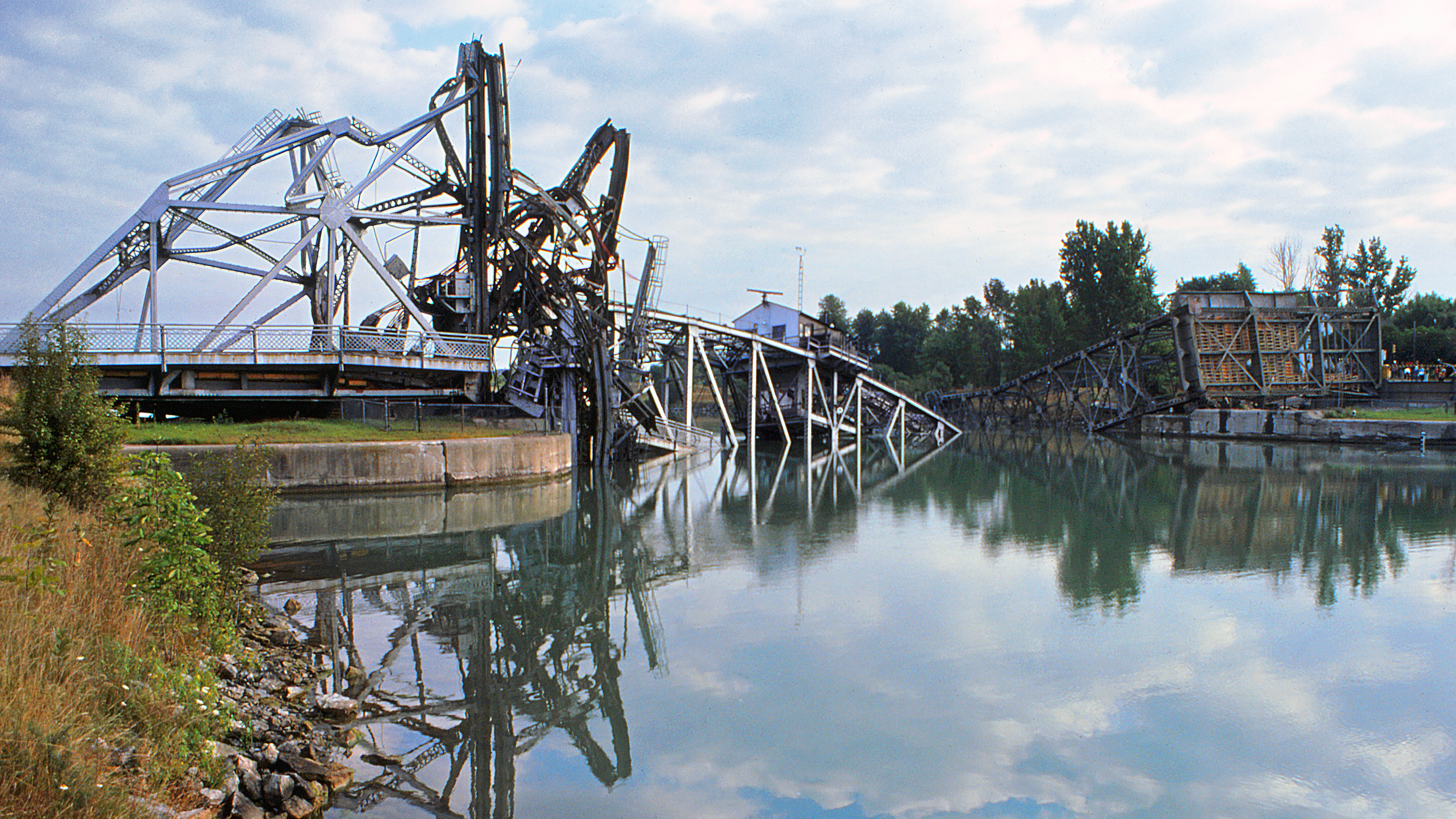 Welland Canal Lift Bridge 12, destroyed on August 25, 1974, after collision with the 600-ft ore carrier Steelton. (Digitized from Kodachrome original)